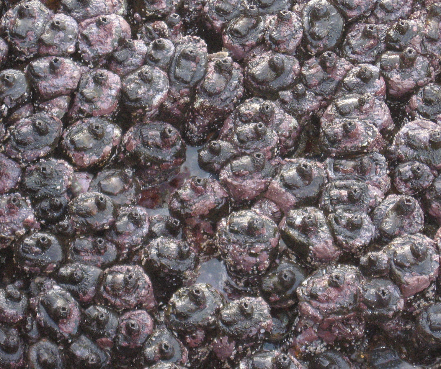 Photograph Pyura stolonifera field